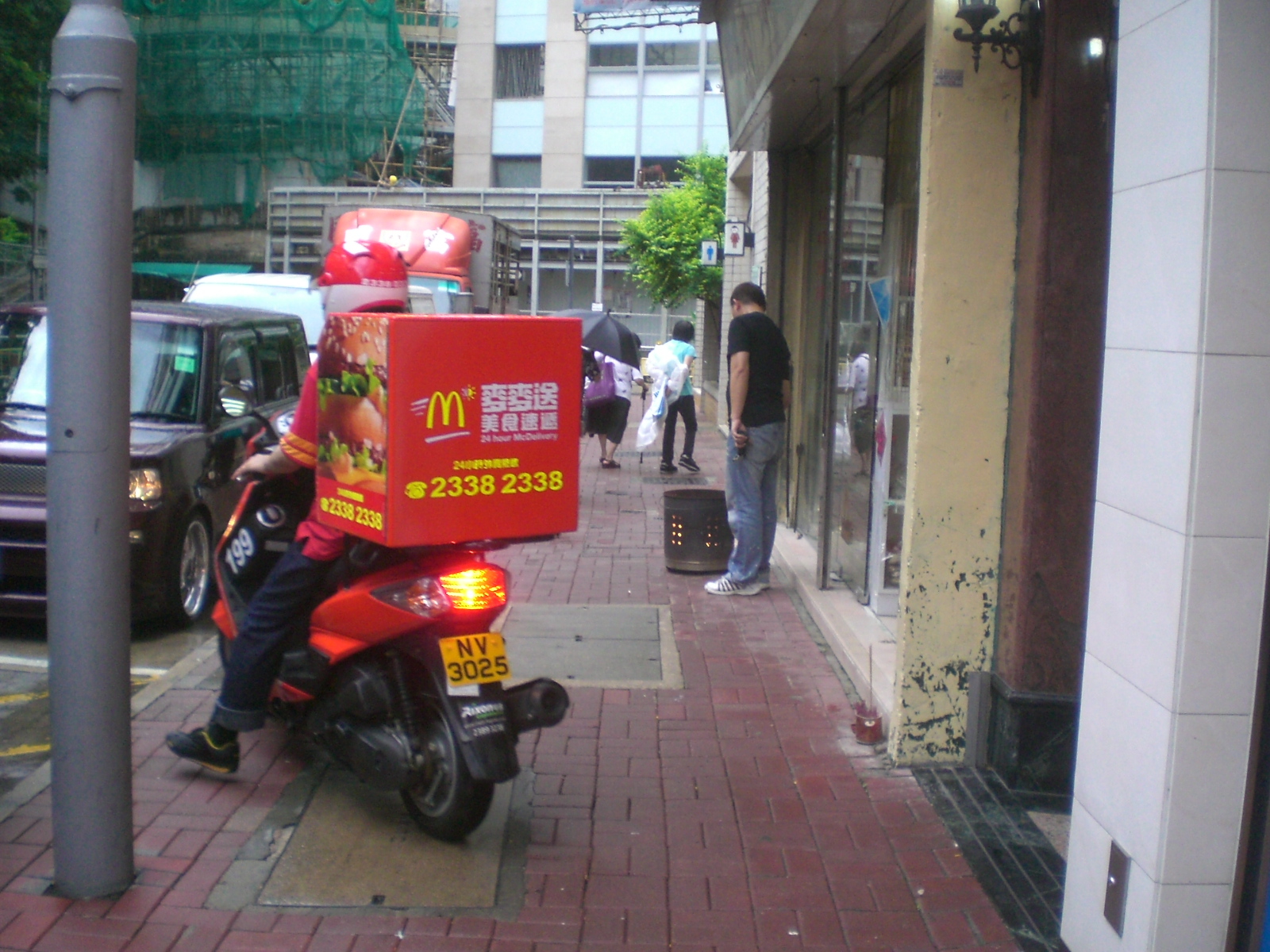 筲箕灣 金華街 麥麥送外賣